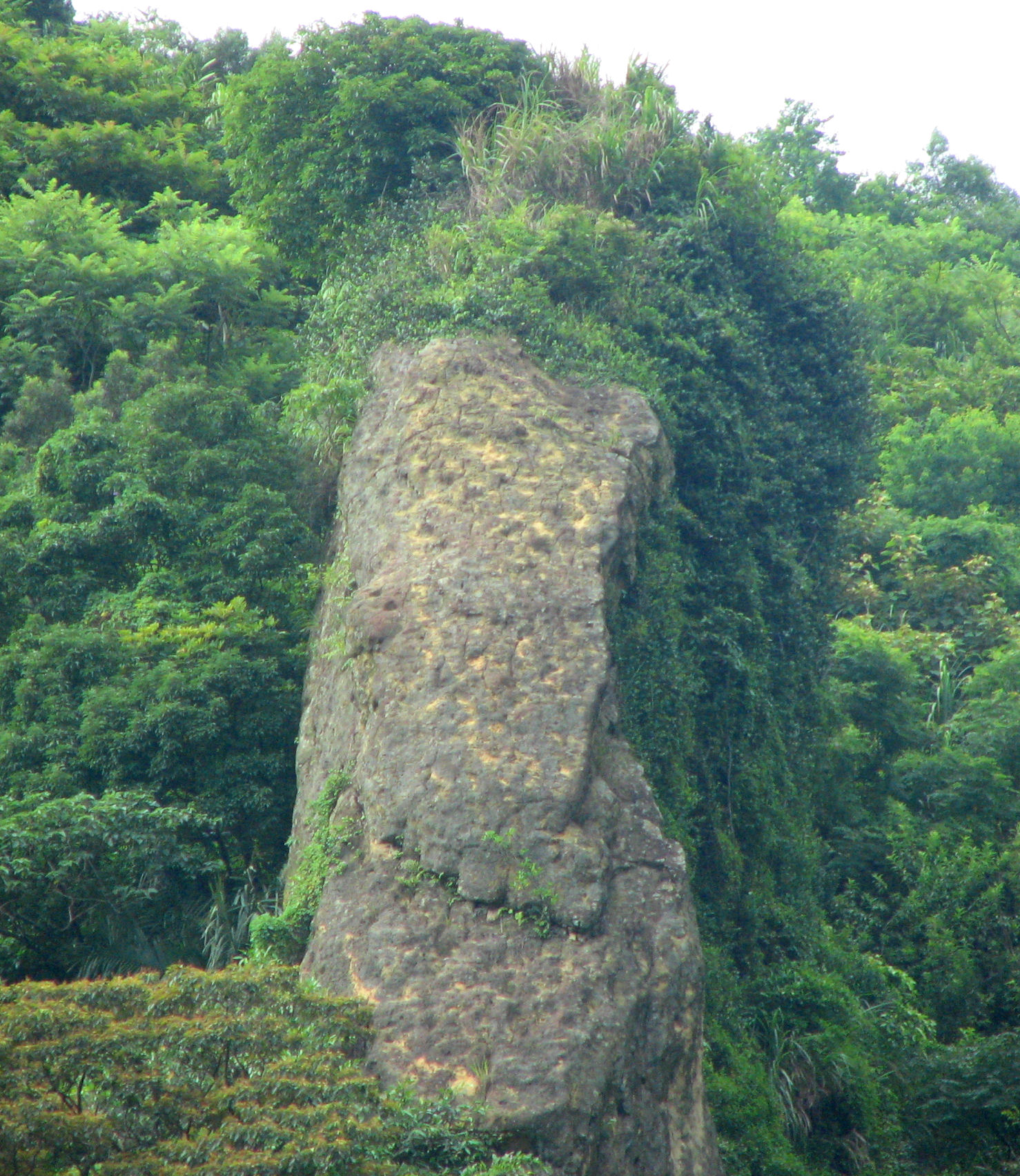 YingGe (Eagle) Rock, YingGe, Taiwan.